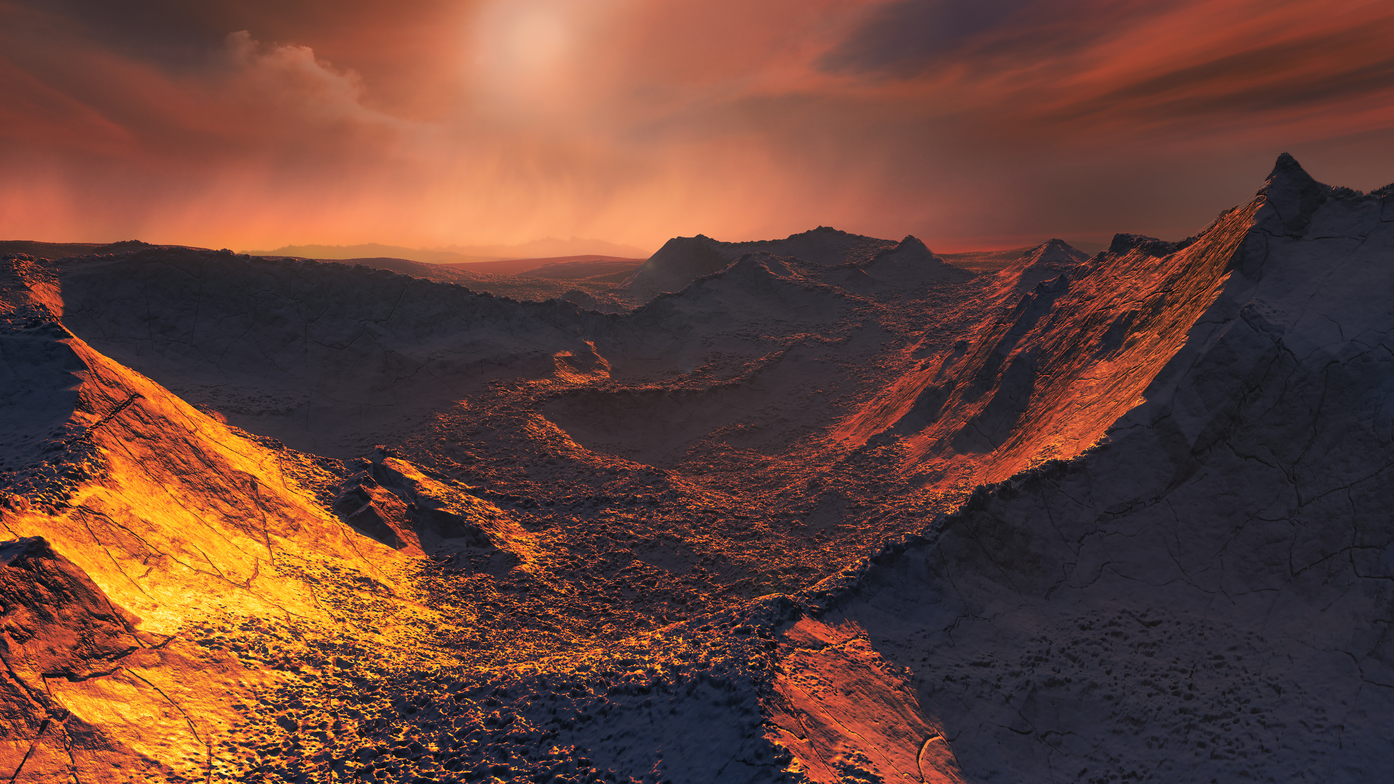 The nearest single star to the Sun hosts an exoplanet at least 3.2 times as massive as Earth — a so-called super-Earth. Data from a worldwide array of telescopes, including ESO’s planet-hunting HARPS instrument, have revealed this frozen, dimly lit world. The newly discovered planet is the second-closest known exoplanet to the Earth and orbits the fastest moving star in the night sky. This image shows an artist’s impression of the planet’s surface.